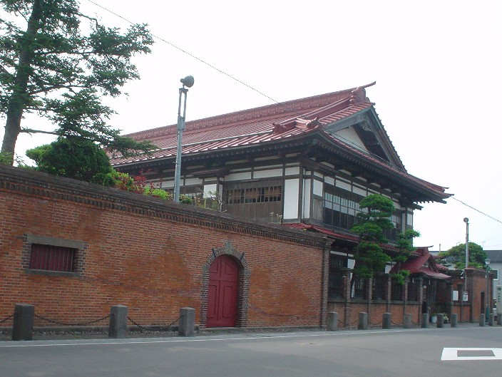 Shayokan, the house in which Dazai Osamu was born.